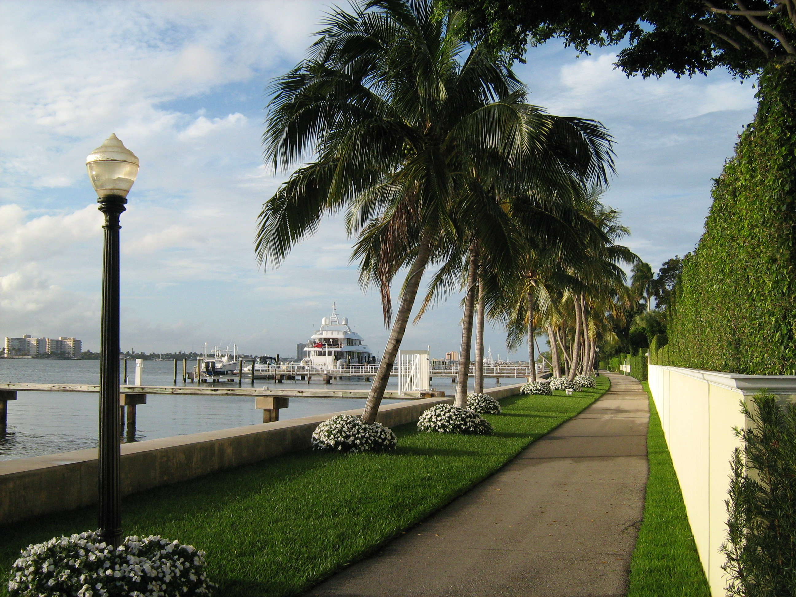 View of part of the lake bikeway along the Lake Worth lagoon (Intracoastal Waterway) in the Town of Palm Beach, Florida, taken slightly north of Flagler Memorial bridge.